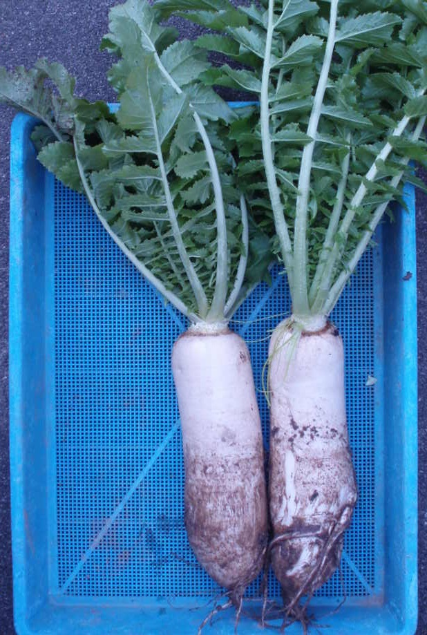 Ohkura daikon. One of the kinds of the Japanese radish.